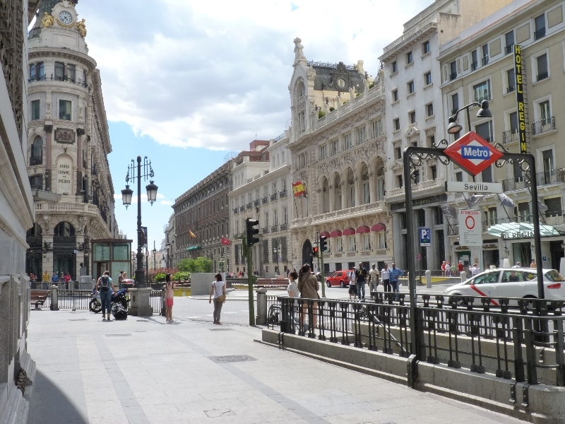 View from Calle de Alcalá (street) in Madrid (Spain). At the right, Sevilla Metro station.